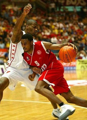 Will Solomon during his first tenure with Hapoel Jerusalem